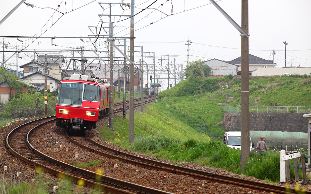 33.3 permil gradient of Meitetsu Kakamigahara Line, between Haba Sta. and Unumajuku Sta.